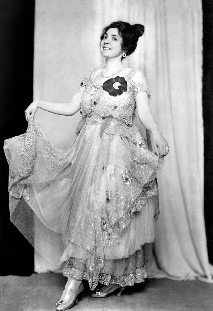 Fritzi Massary (born 31 March 1882 in Vienna, Austria; died 30 January 1969 in Los Angeles, California) was an Austrian-American soprano. (This summary was created using Commons SumItUp)